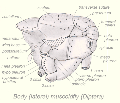 The side (lateral) of the body-segment of a Diptera (insect)